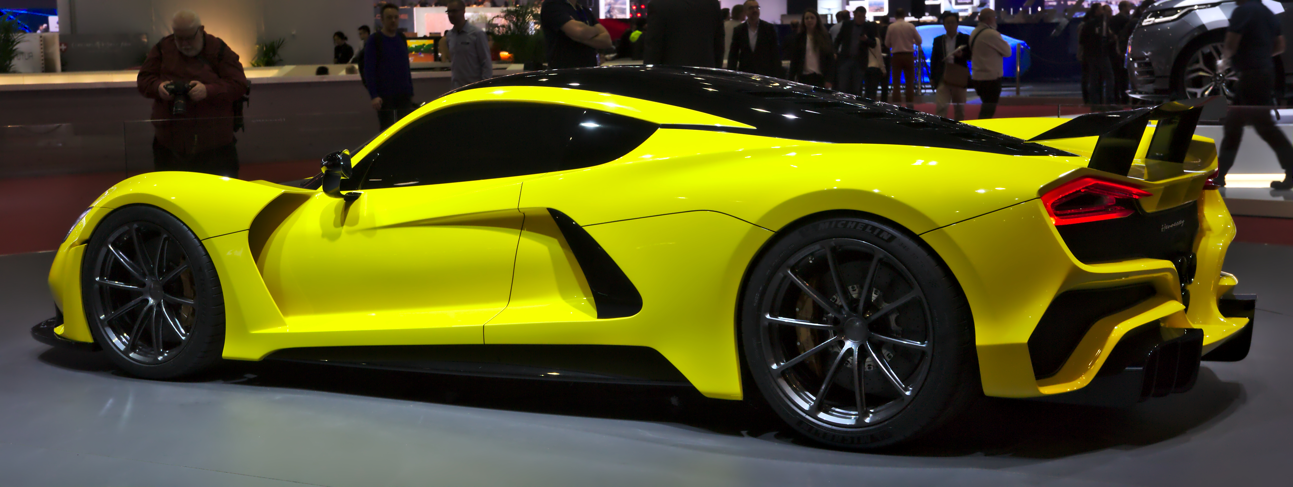 Hennessey Venom F5 at Geneva Motorshow 2018